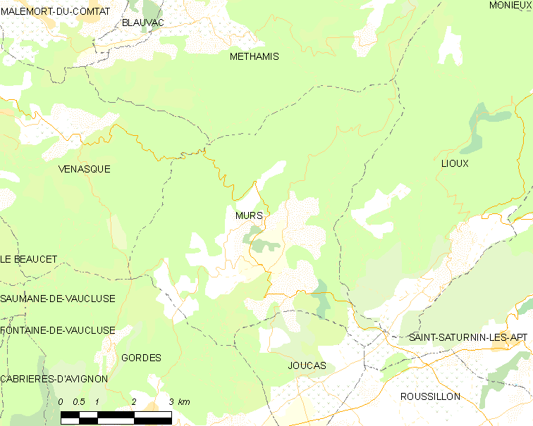 Map of French municipality Murs